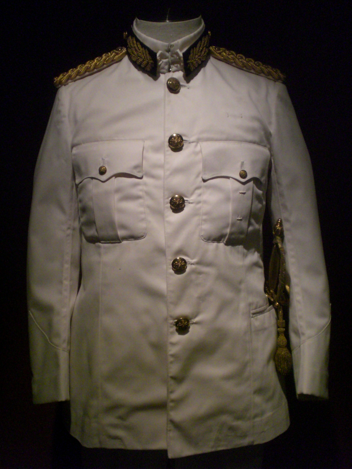 香港歷史博物館, Hong Kong Museum of History - 尤德爵士官方禮服